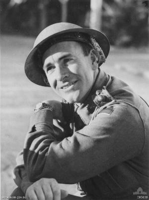 Captain Ralph Honner, commander of C Company 2/11 Australian Infantry Battalion, in Libya. He was later the commander of the 39th Battalion during the Kokoda Track Campaign.